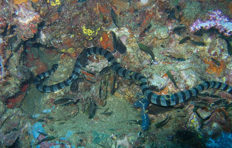 Blue-lipped sea krait (Laticauda laticaudata), Anemone Reef, Thailand.